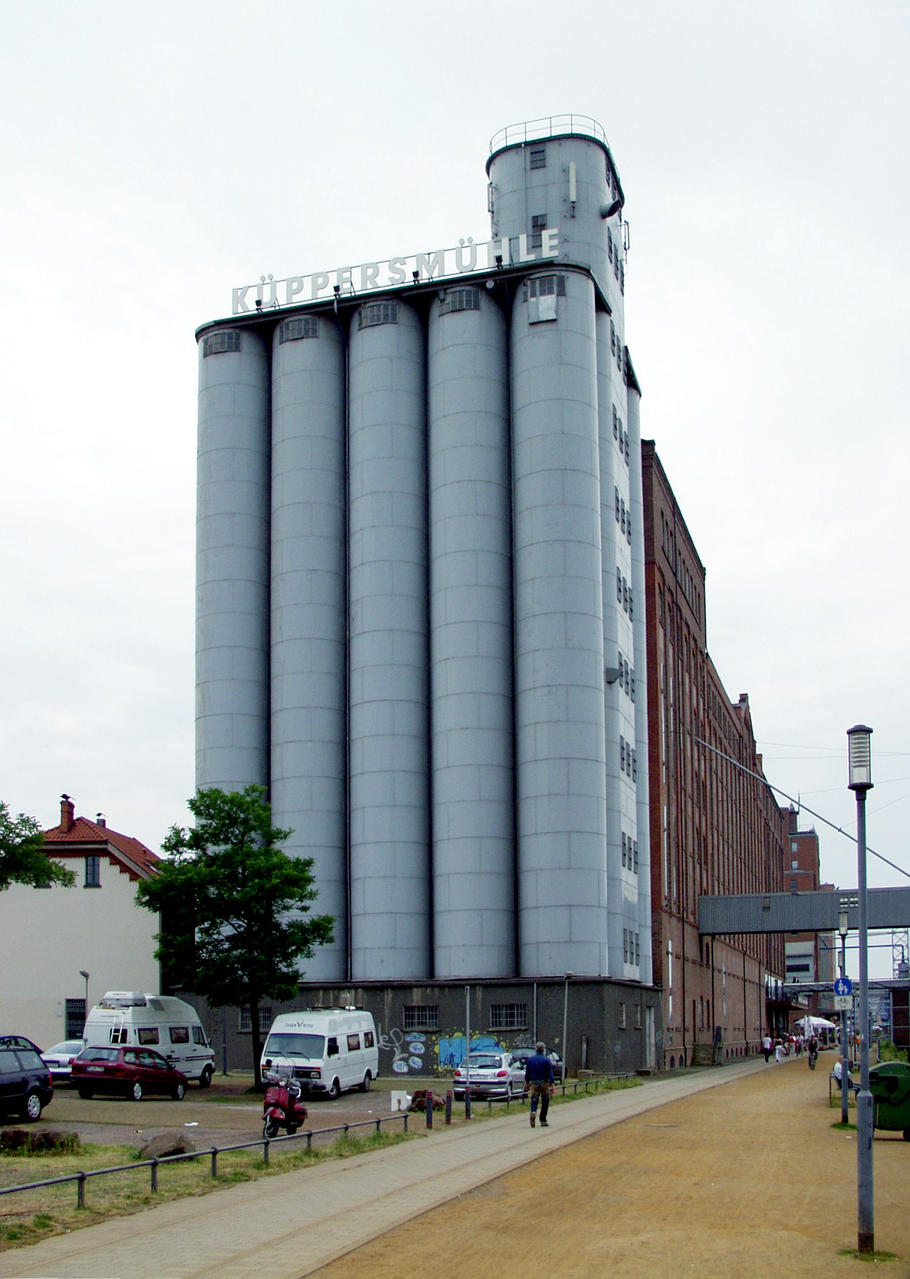 Silo of Museum Küppersmühle in Duisburg, Germany